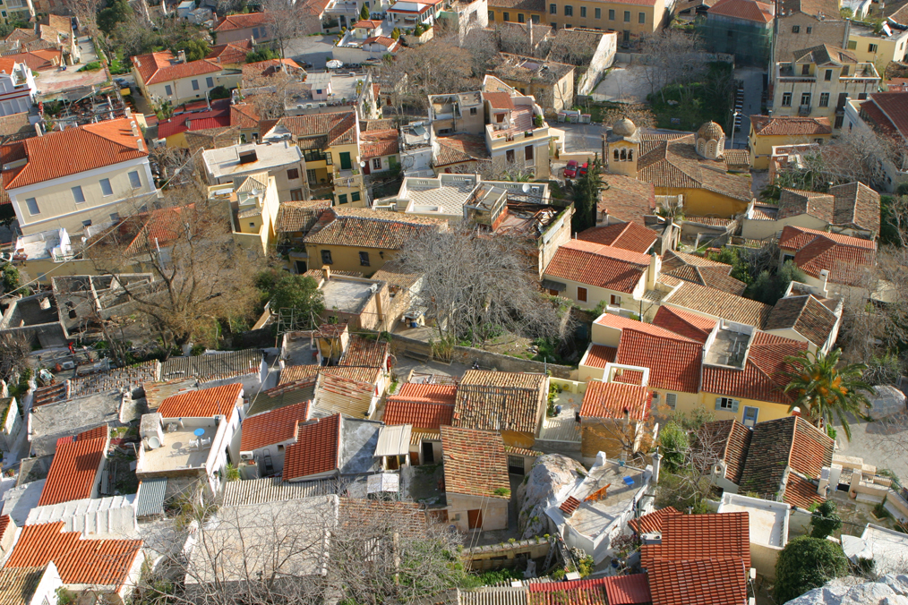 Athenian Rooftops:I took this shot in the morning from the Acropolis in Athens, Greece. I saturated the image a bit to make it look like it did to my eye.